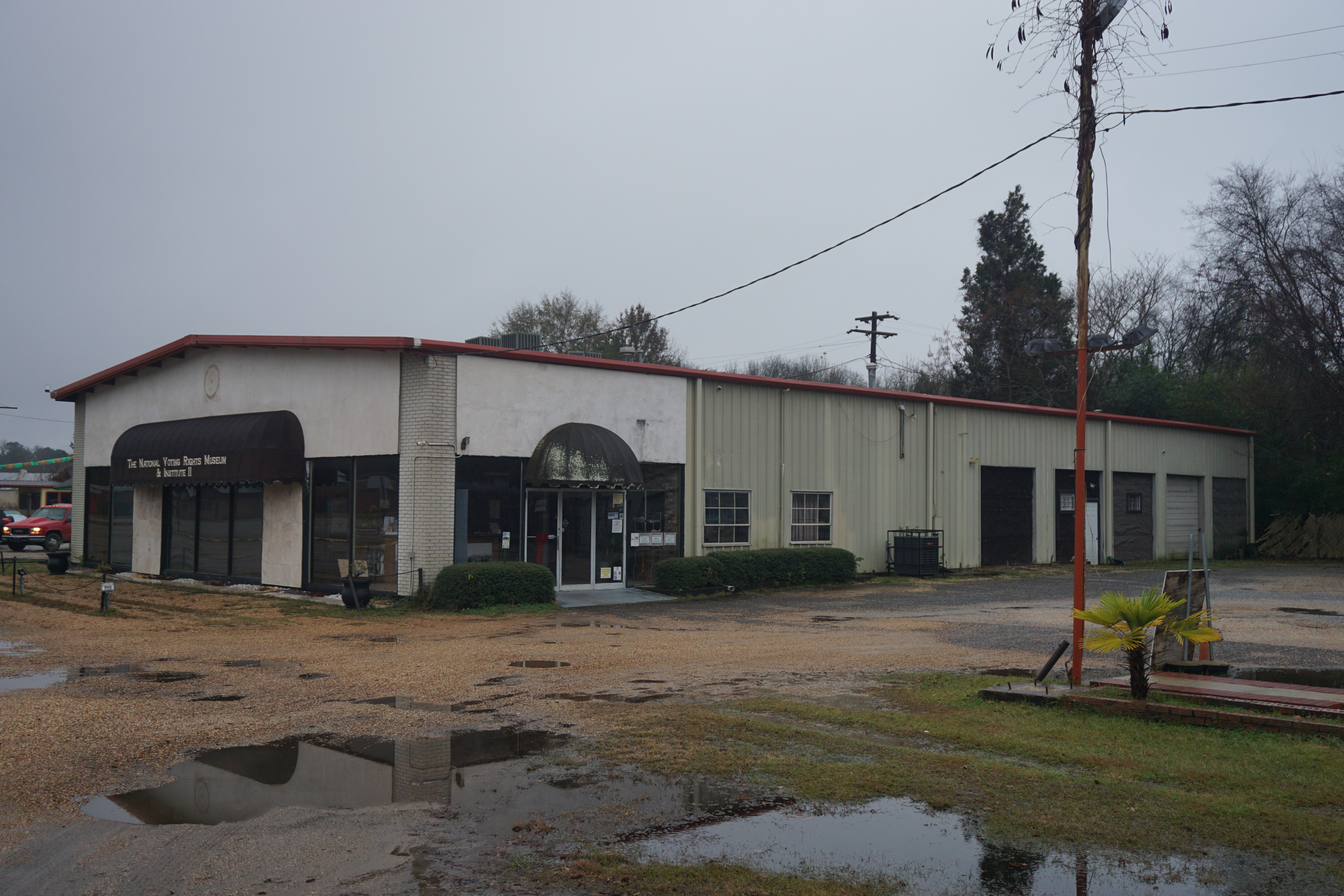 The National Voting Rights Museum and Institute in Selma, Alabama (United States).